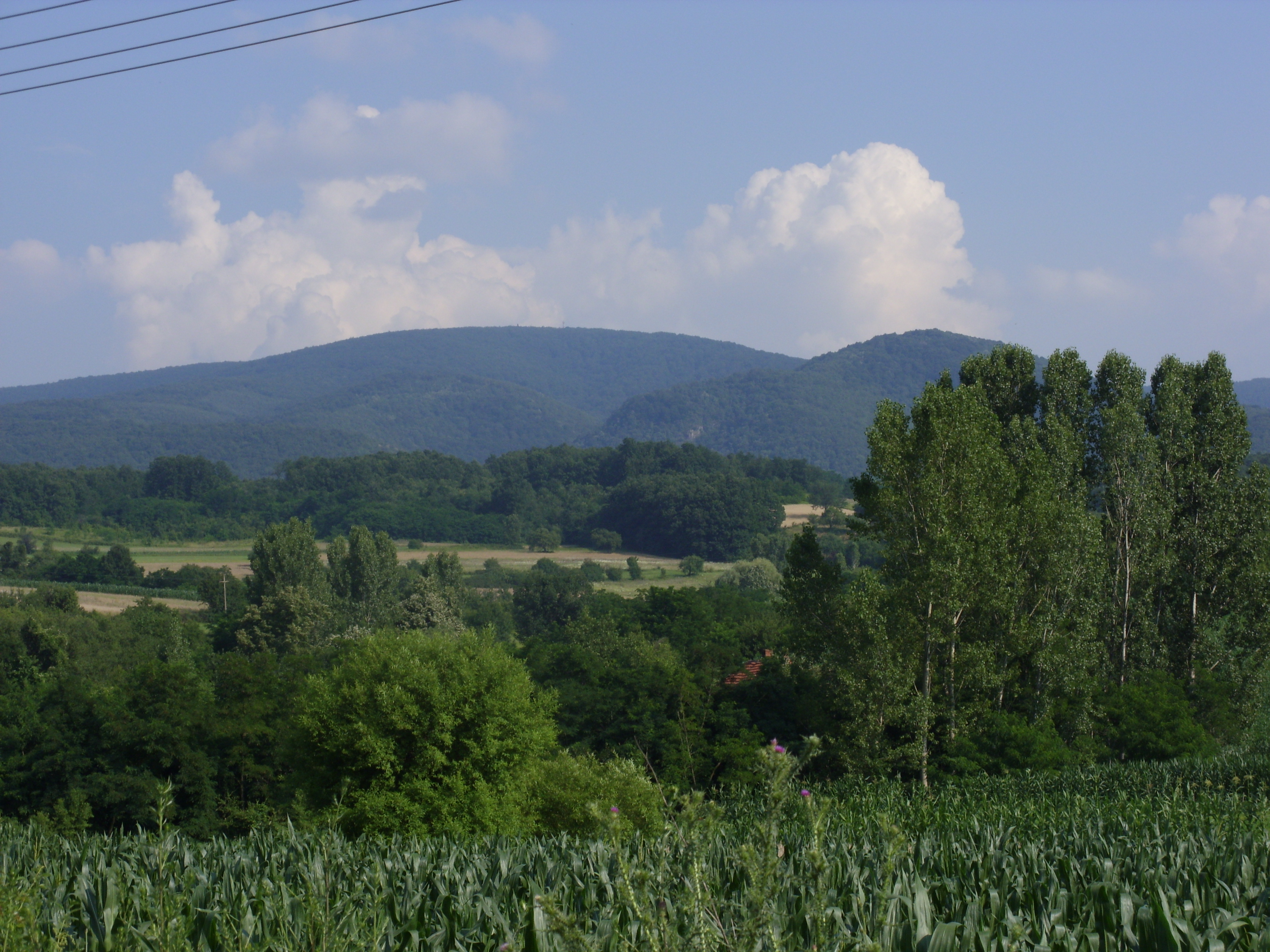 village of Lupten, Aleksinac Municipality, Serbia